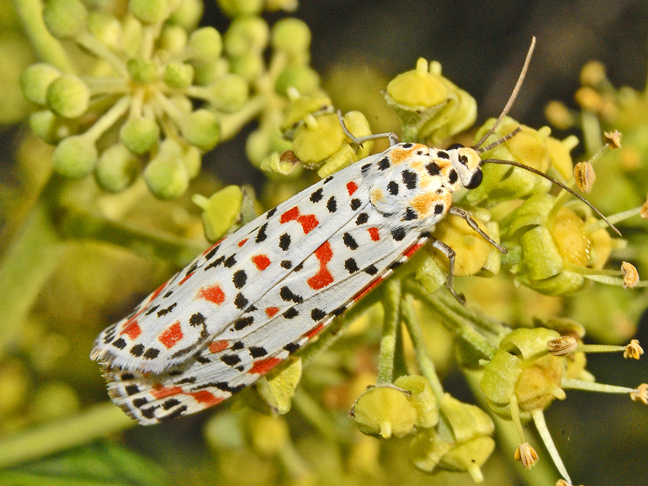 Utetheisa pulchella, dorsal view. Genova, Italy